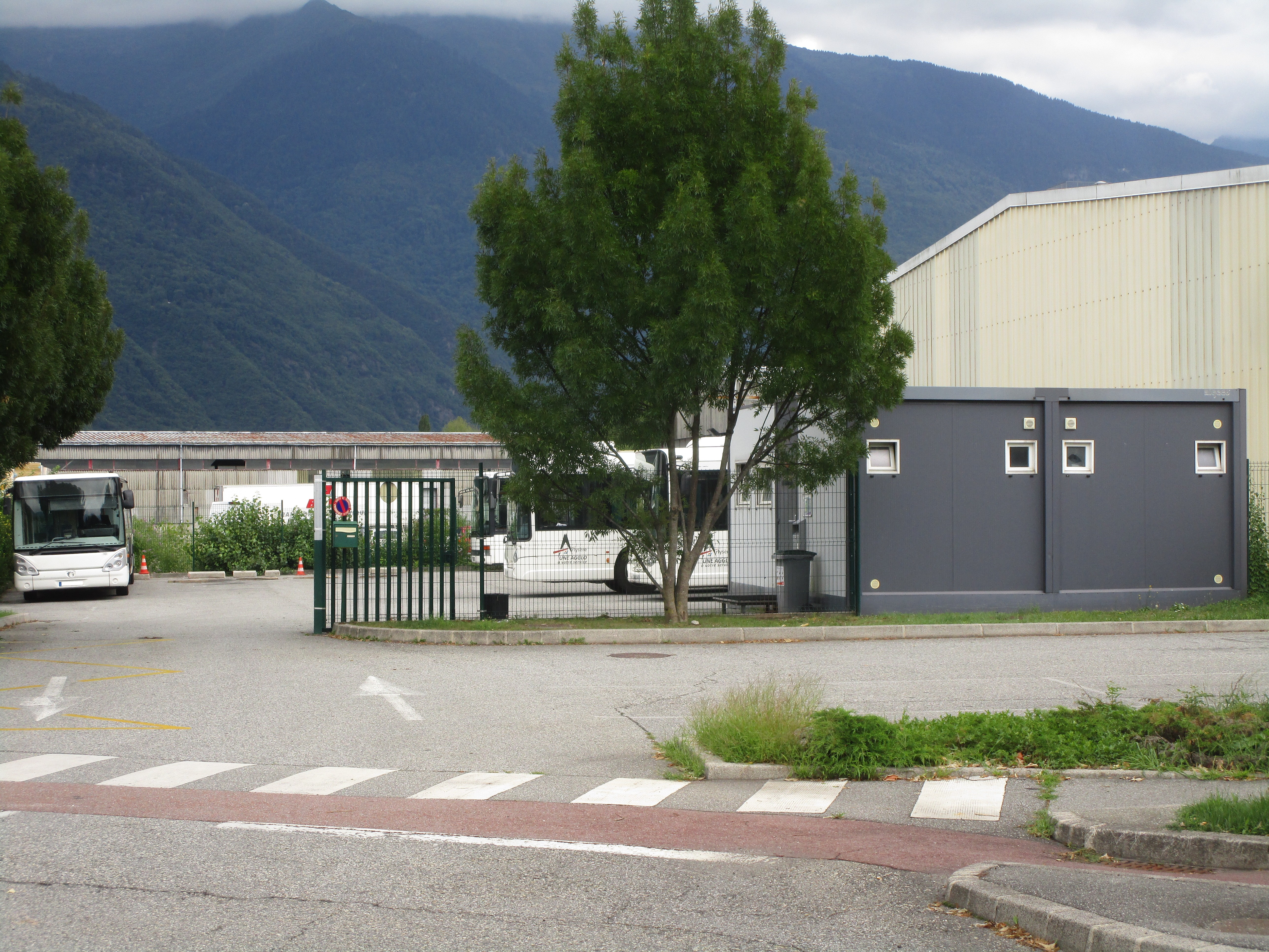 Few buses of TRA at the yard (Albertville, France) on August 9, 2017.